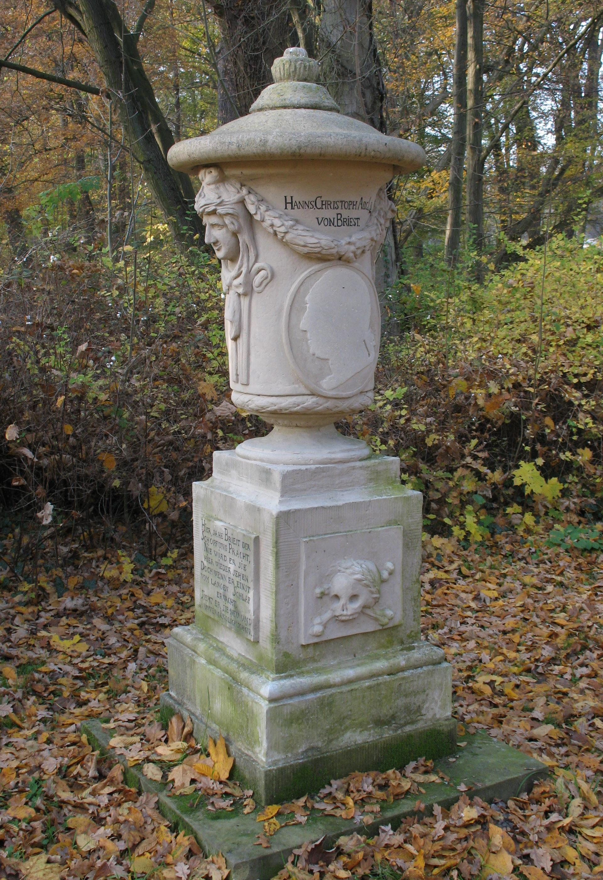 Memorial in the palace garden in Nennhausen in Brandenburg, Germany